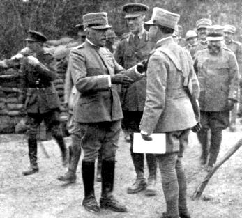 General Count Luigi Cadorna, Italian Chief of Staff, visiting British batteries